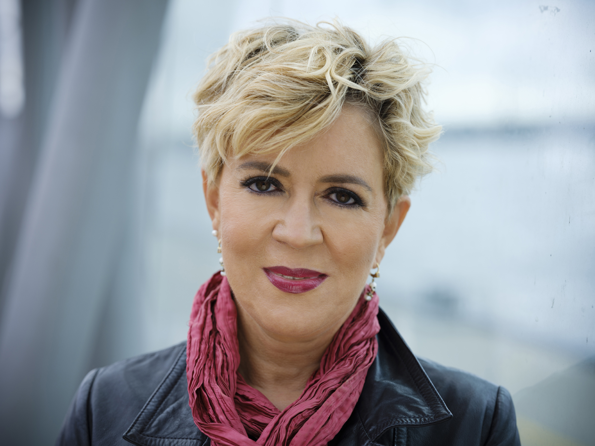 Portrait Petra Reski